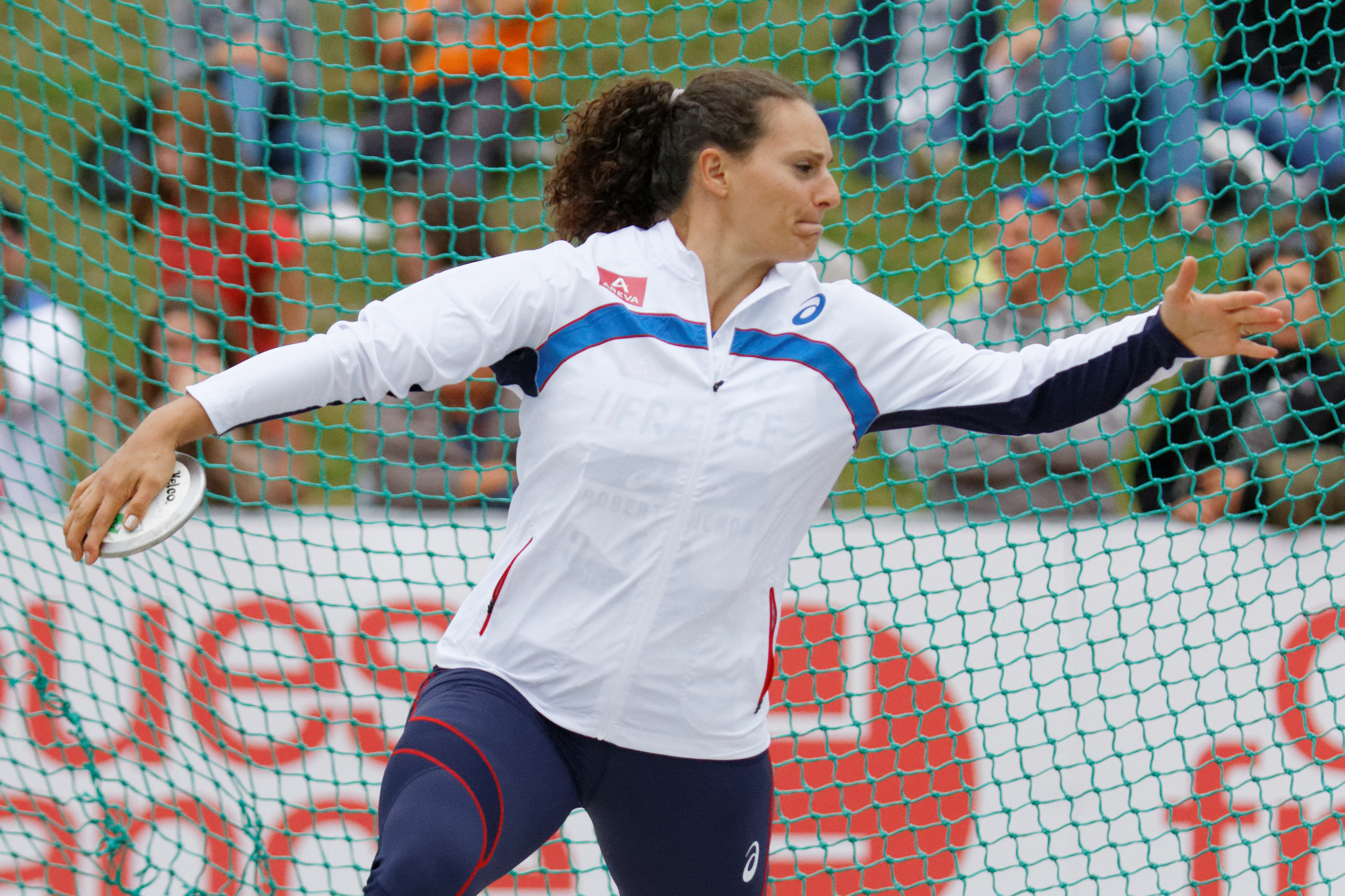 DécaNation 2014. Discus throw. Mélina Robert-Michon.